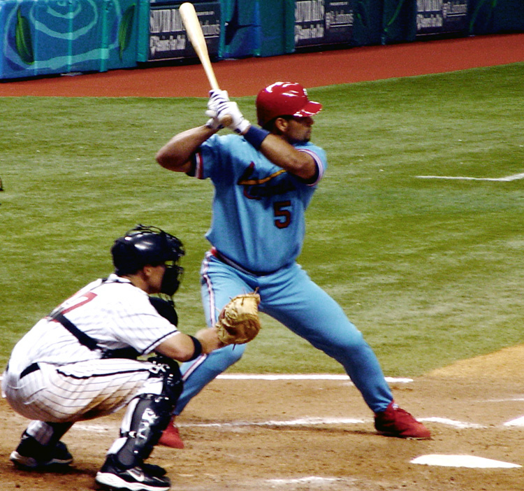 Albert Pujols at bat, wearing a 1982 retro jersey, the year the Cardinals won their 9th World Series. Photo by Googie Man 00:35, 25 June 2005 . . Googie man . . 750×702 (298 KB)